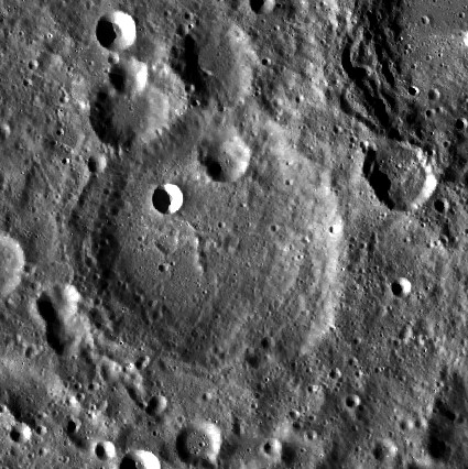 Kurchatov lunar crater LROC image. Nearby Wiener is seen at top right corner.